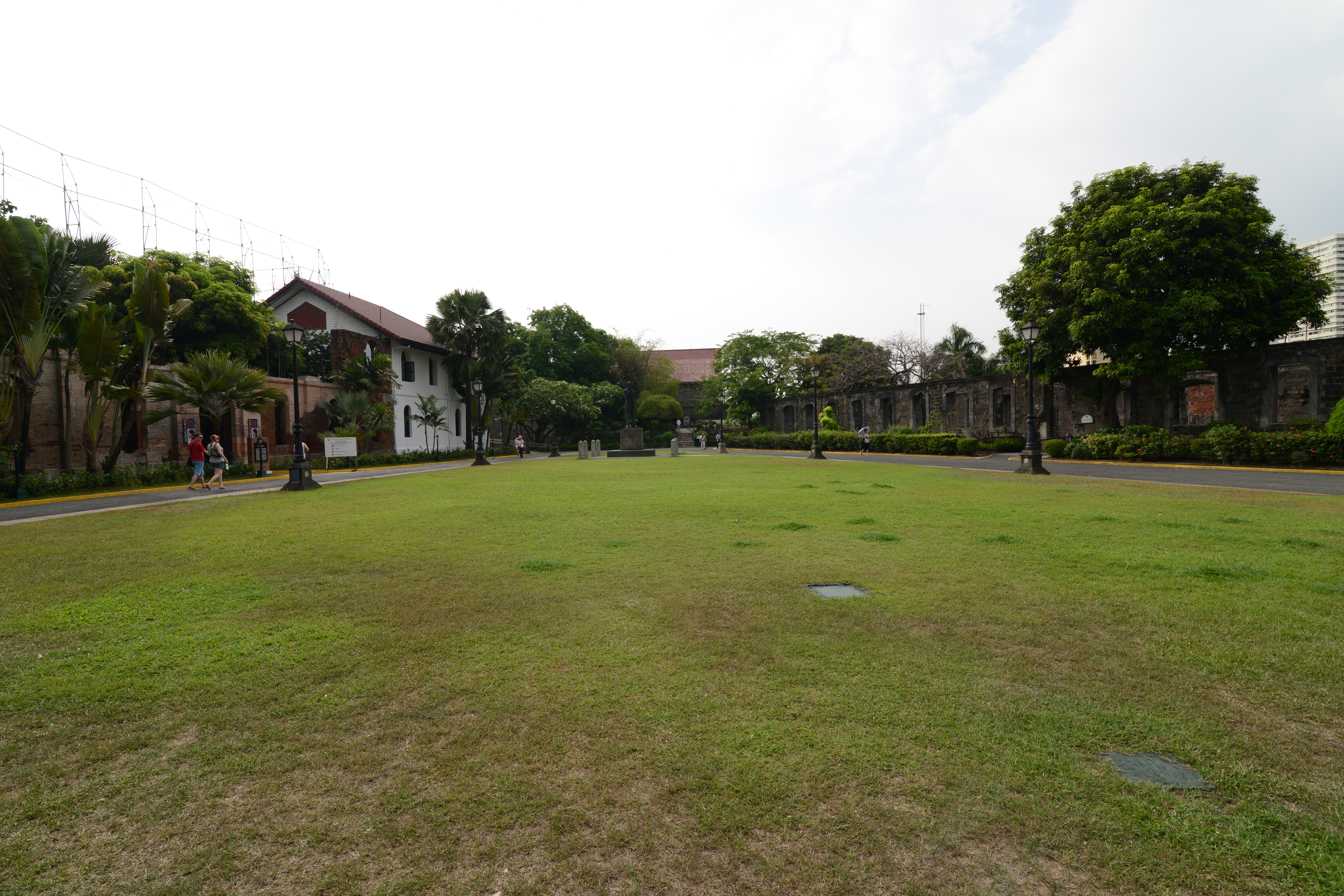 Fort Santiago (Moog ng Santiago) is a citadel first built by Spanish conquistador, Miguel López de Legazpi for the new established city of Manila in the Philippines. The defense fortress is part of the structures of the walled city of Manila referred to as Intramuros ("within the walls"). The fort is one of the most important historical sites in Manila. Several lives were lost in its prisons during the Spanish Colonial Period and World War II. José Rizal, the Philippine national hero, was imprisoned here before his execution in 1896. The Rizal Shrine museum displays memorabilia of the hero in their collection and the fort features, embedded onto the ground in bronze, his footsteps representing his final walk from his cell to the location of the actual execution